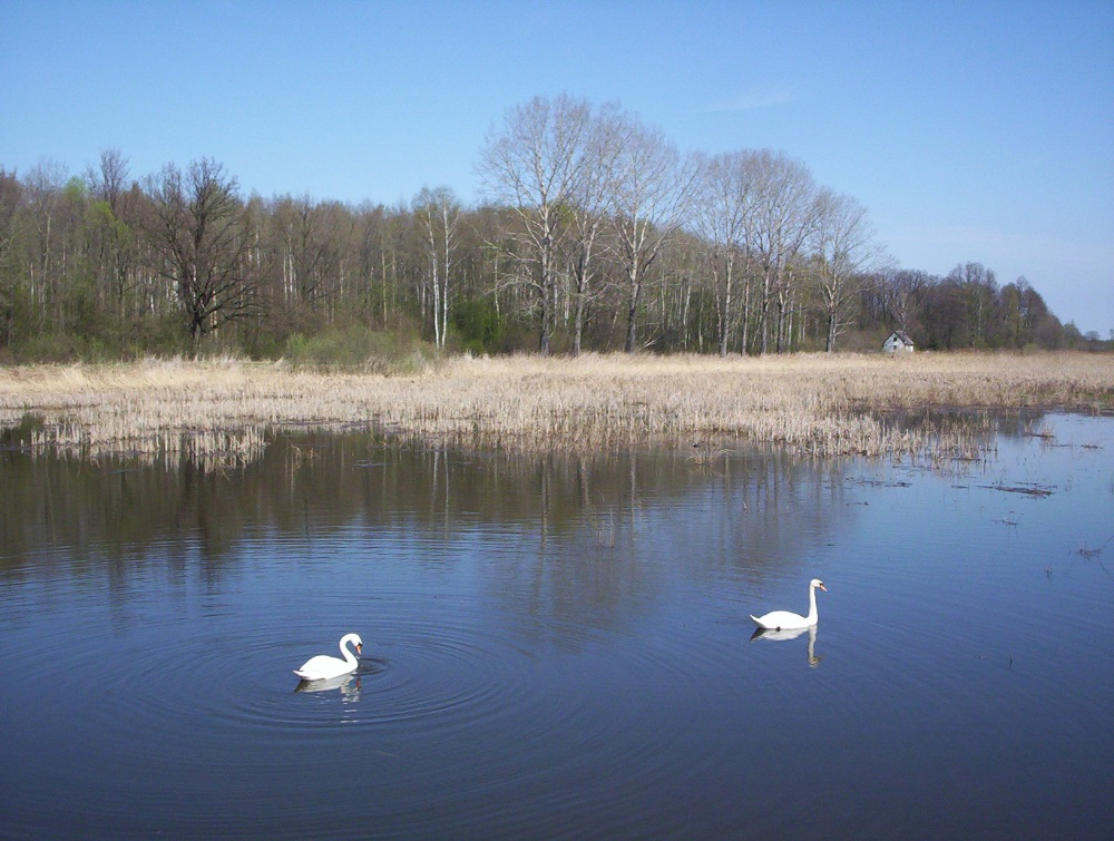 Unused fish ponds near Kamionka, Poland.